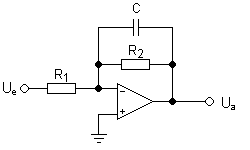 Circuit diagram of active low pass filter with symbols for input voltage (Ue) and output voltage (Ua)